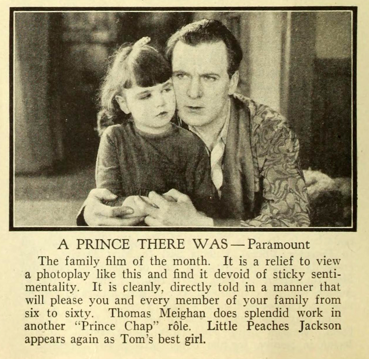 Film still and caption in Photoplay for the film A Prince There Was (1921) with Peaches Jackson and Thomas Meighan.